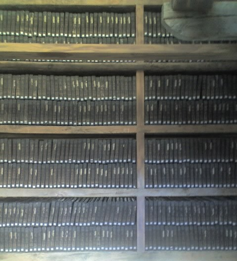 Frontview of some of the 80.000 wooden blocks of the Tripitaka at Haeinsa temple in South Corea.